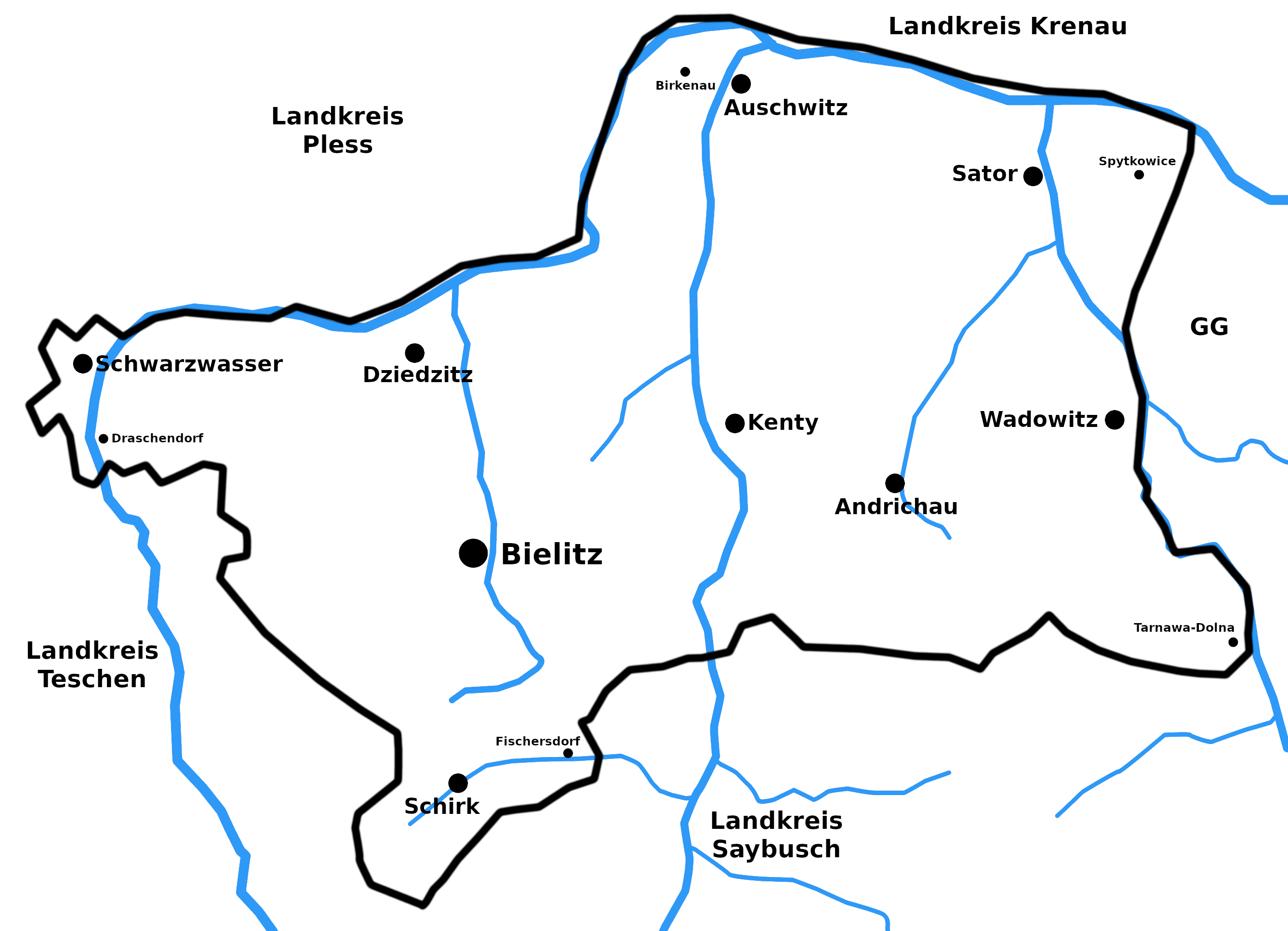 Landkreis (County) of Bielitz (Bielsko(-Biała)) in World War 2